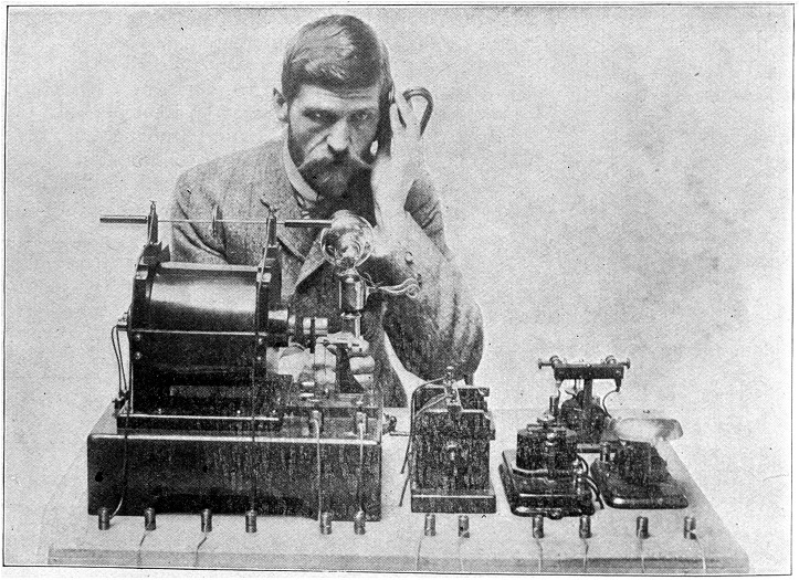 Archie Frederick Collins was an early inventor who specialized in wireless telephony. Original caption: "Sending and receiving a photo-electric message, Collins system."